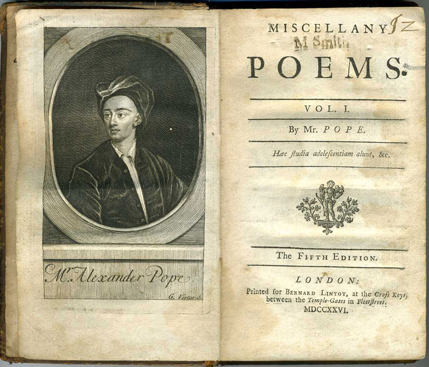 Pope's Miscellany, Title page and G Vertue frontispiece